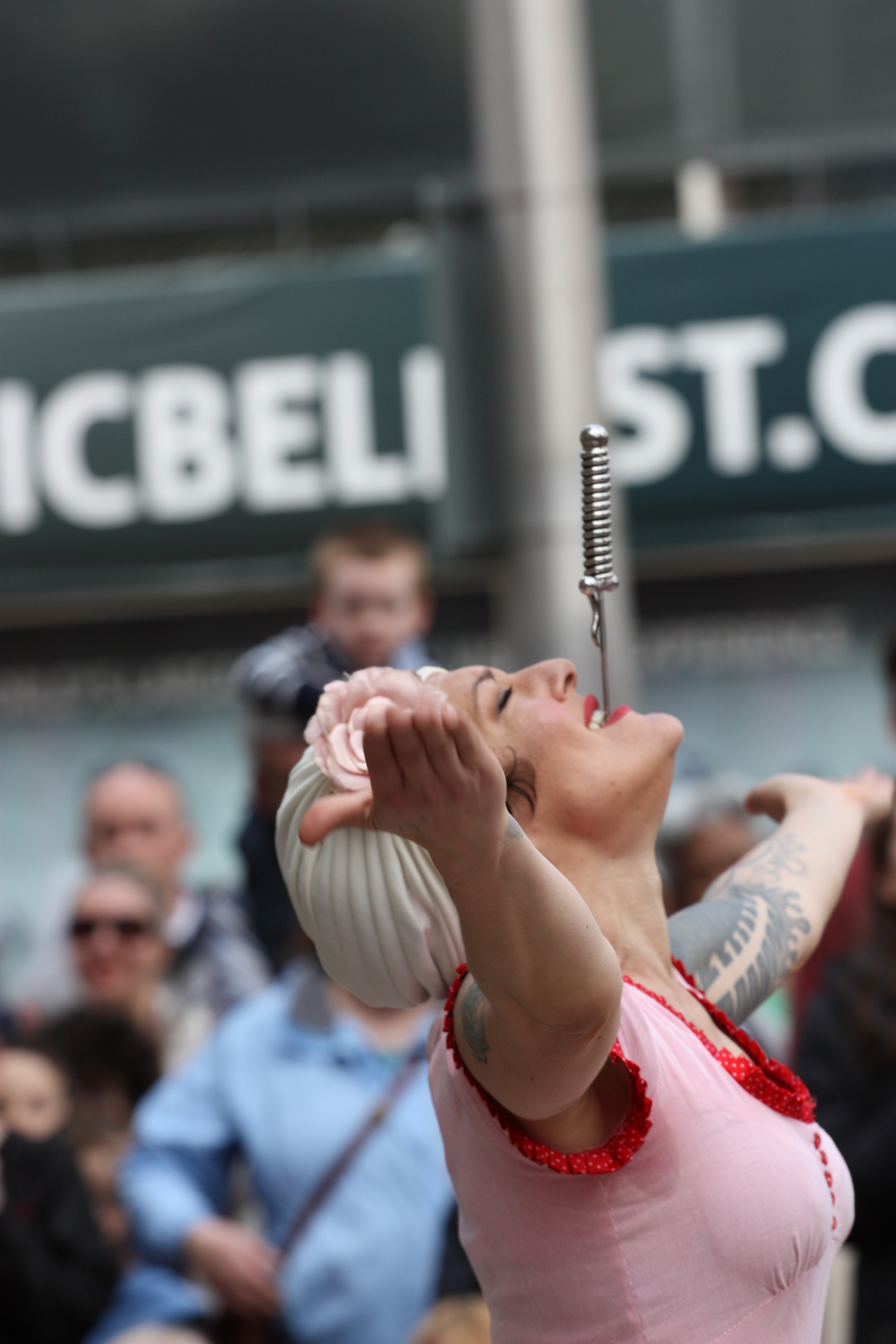 Miss Behave, Festival of Fools, Cornmarket, Belfast, May 2013